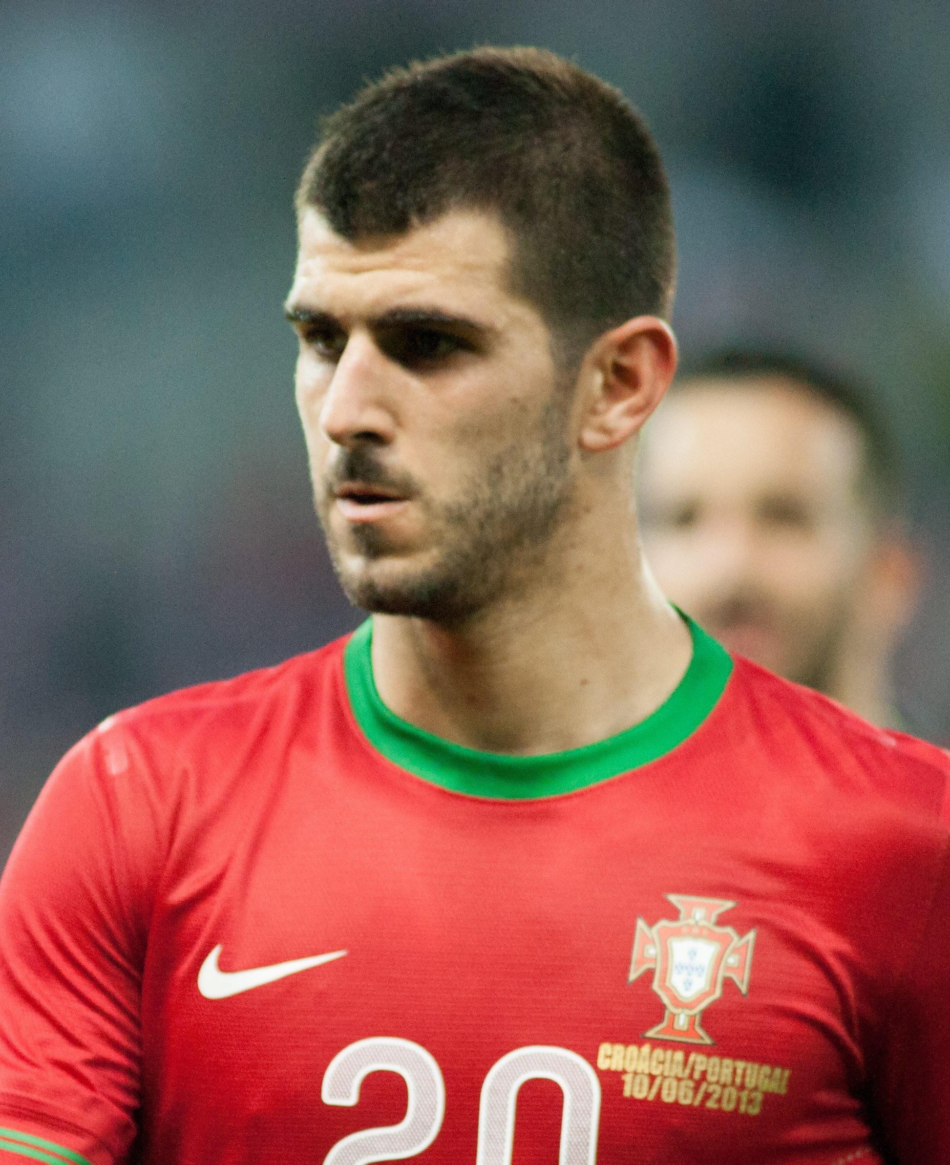 Nelson Oliveira - Croatia vs. Portugal, 10th June 2013